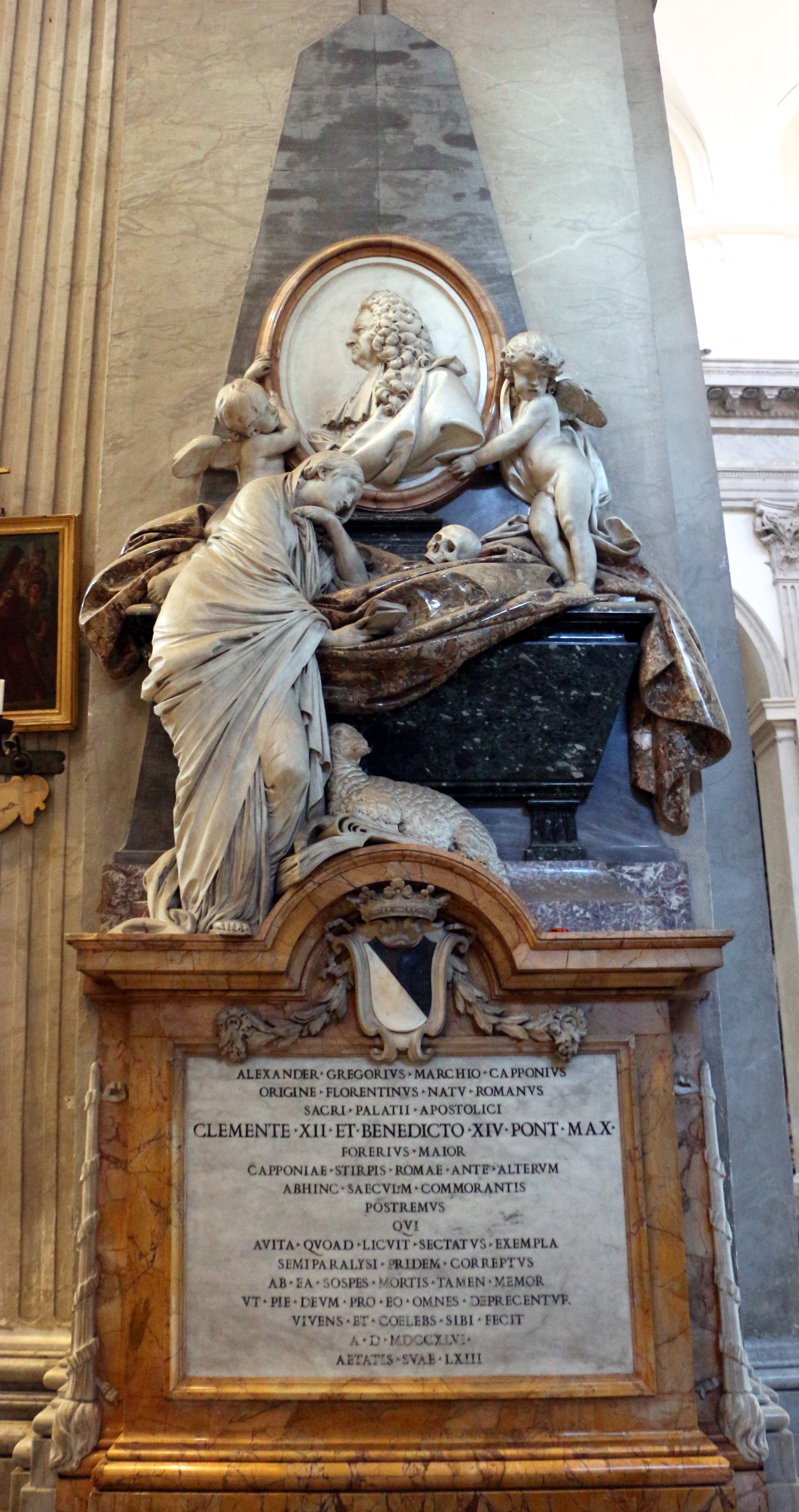 San Giovanni dei Fiorentini (Rome) - Interior, monument to Alessandro Gregorio Capponi, by Ferdinando Fuga with sculptures by Michelangelo Slodz